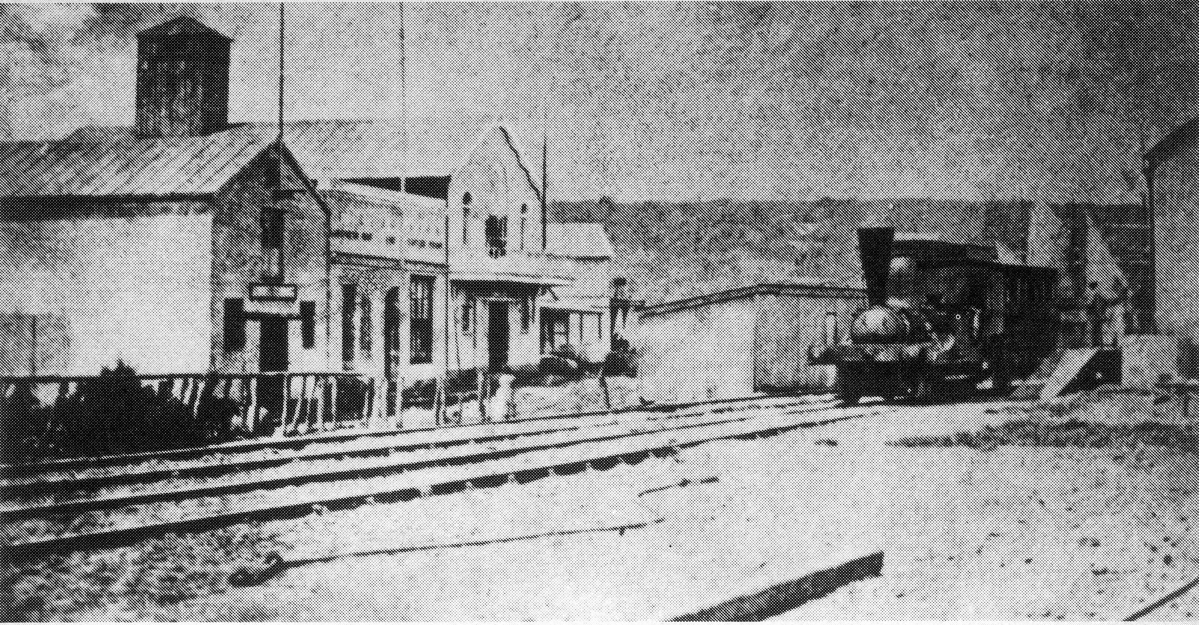 Natal Railway Co “Natal” (0-4-0WT)Location: Point Station, Durban, Natal